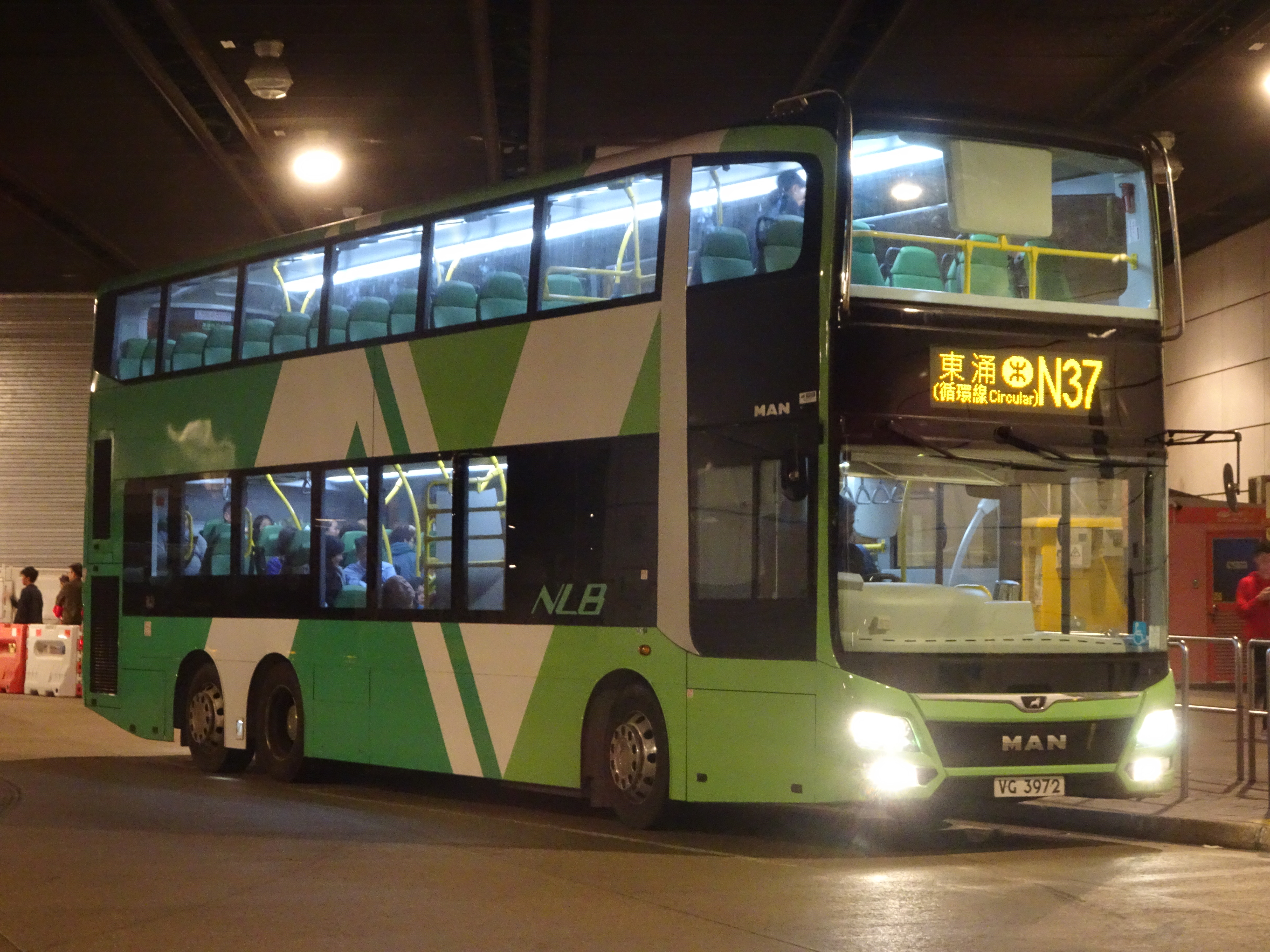 NLB Route N37 (Tung Chung Station Bus Terminus)